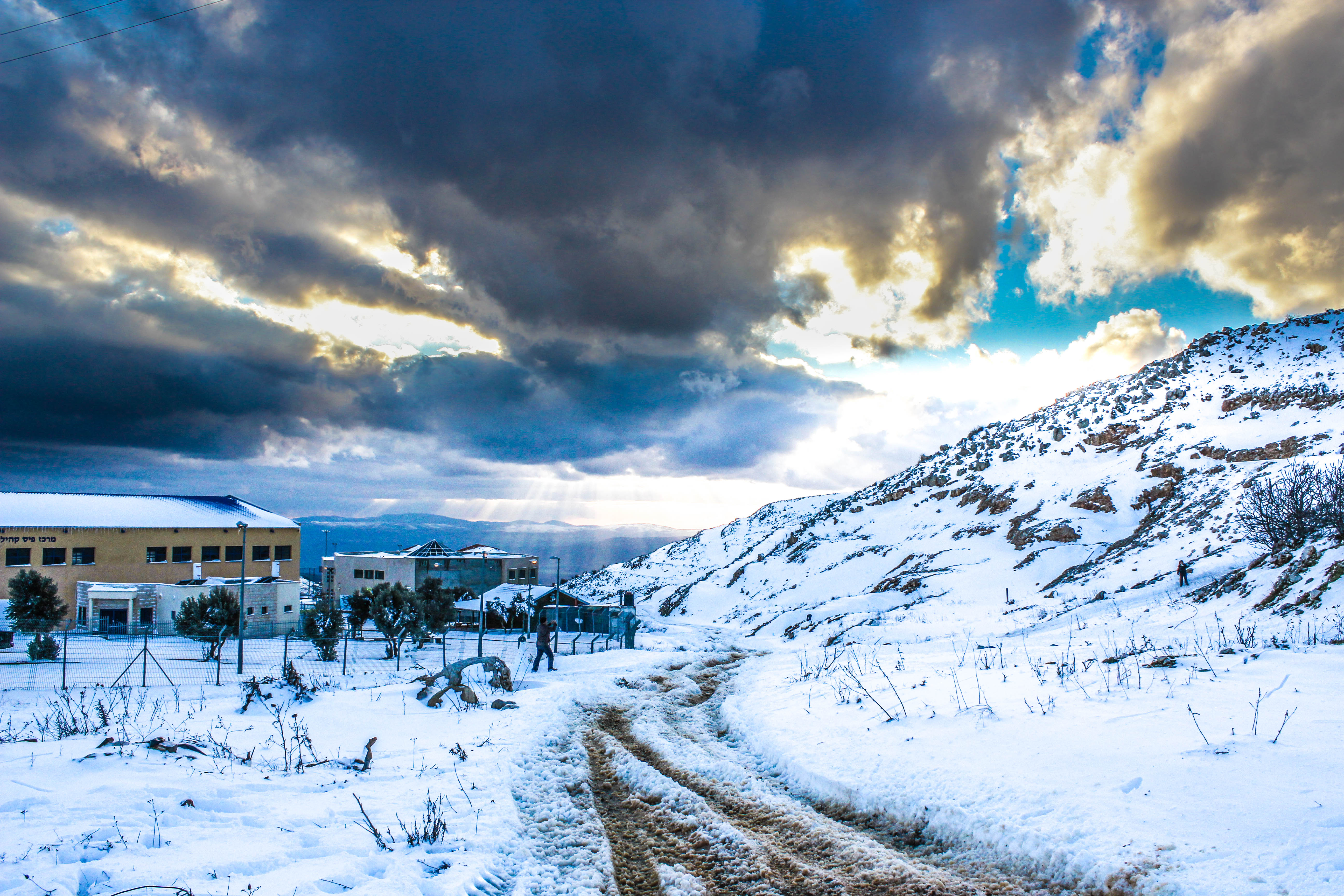 Cities in Israel